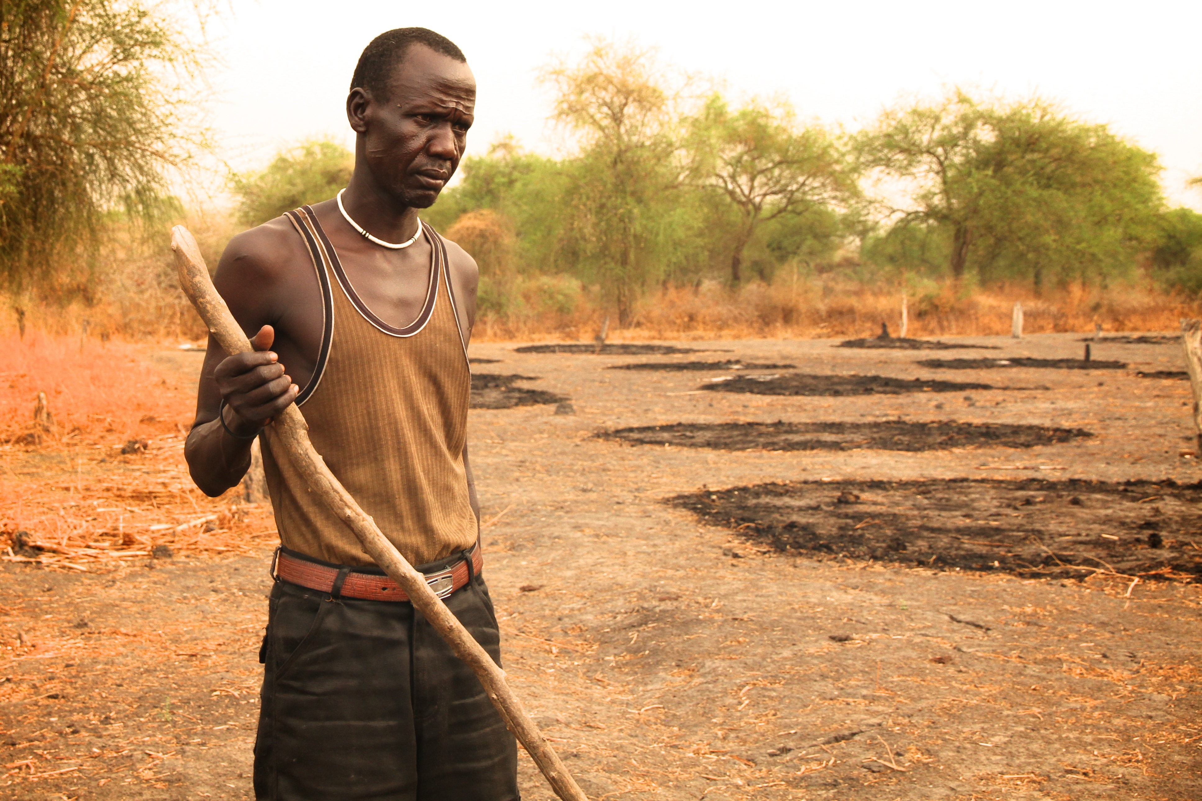 Food insecurity is on the rise in Lankien, northern Jonglei due to conflict. Farmer Kuay Makuach describes how it has impacted him: "We have some food left from the last harvest, but it is almost finished. It won’t reach up to the next harvest. There are no other options, if the UN comes, maybe they can provide. Otherwise, I’ll have to sell some cattle. We normally plant in two locations at the same time but because of this crisis there is only this only place where we were able to plant. But now it was affected by drought and later on rain came late and everything was flooded, so I did not manage to go to the other place to cultivate that land." Photo: Aimee Brown/Oxfam